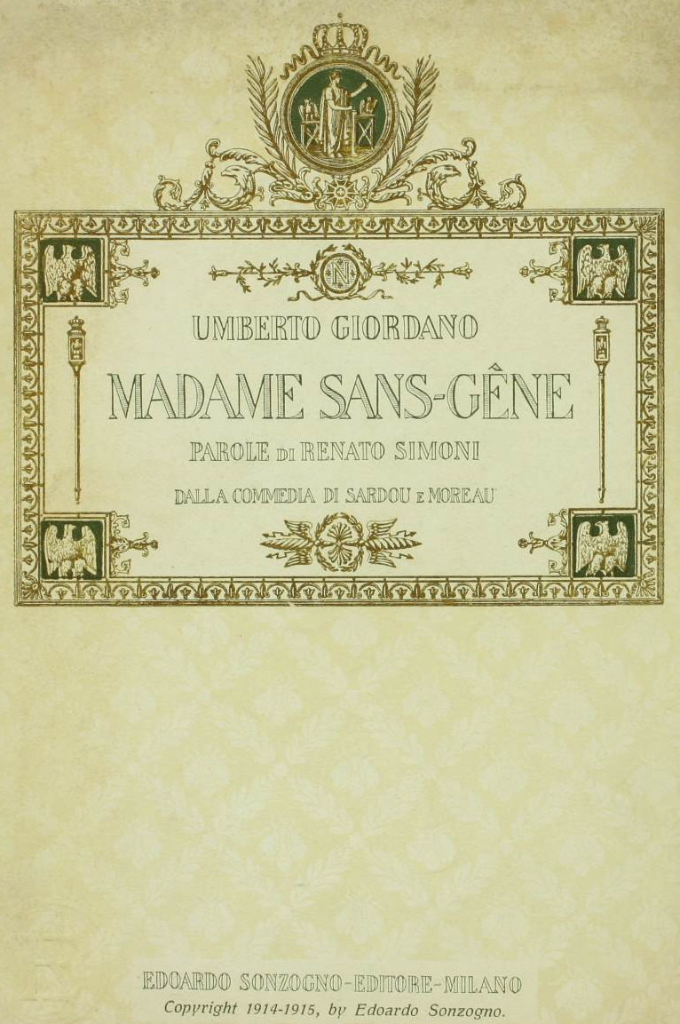 Umberto Giordano - Madame Sans-Gêne - titlepage of the libretto - Milan 1914